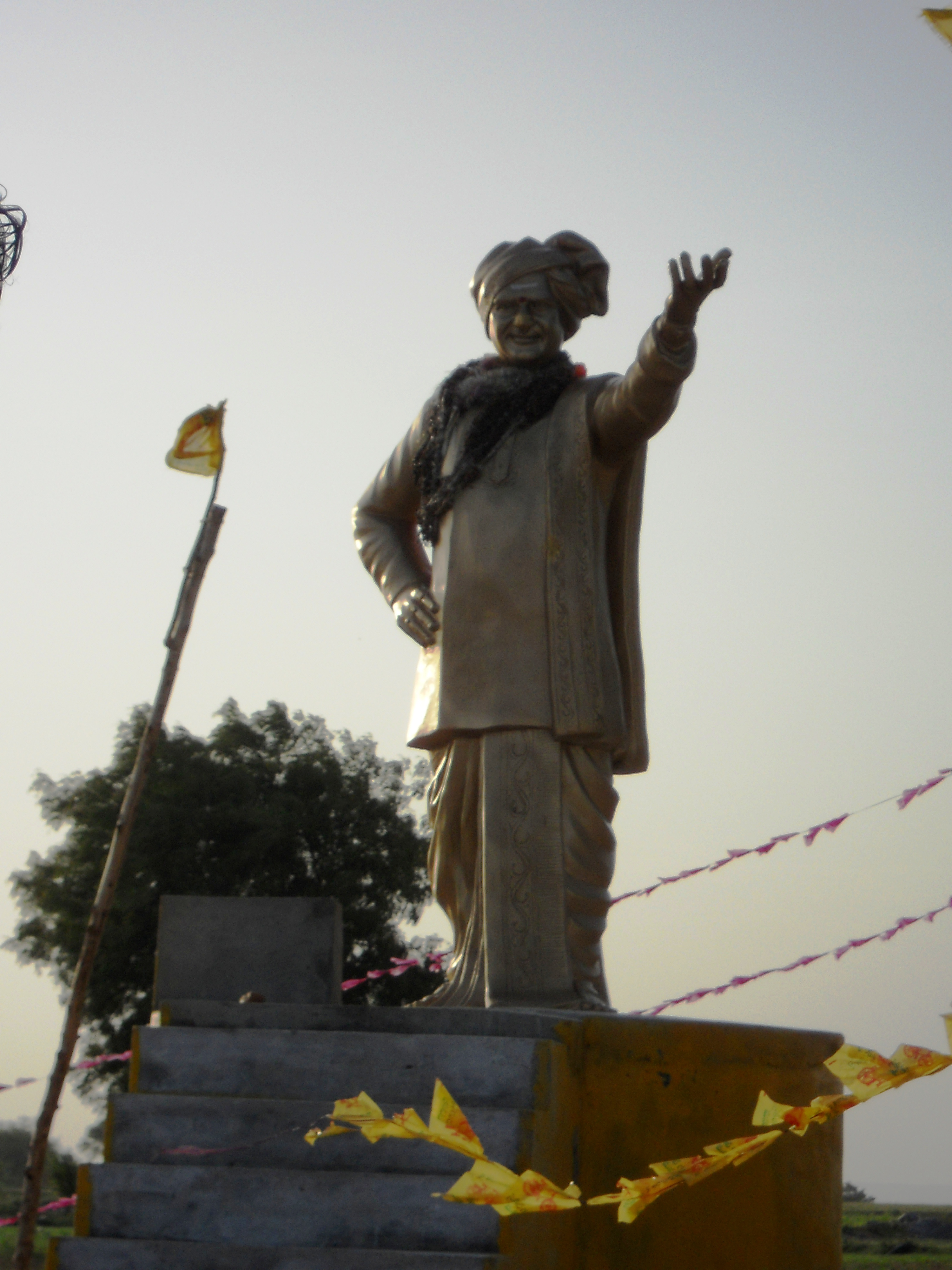 NT Ramarao is iconic figure of Telugus. Most main junctions and villages have his statues installed. One such statue on Hyderabad-Srisailam road.